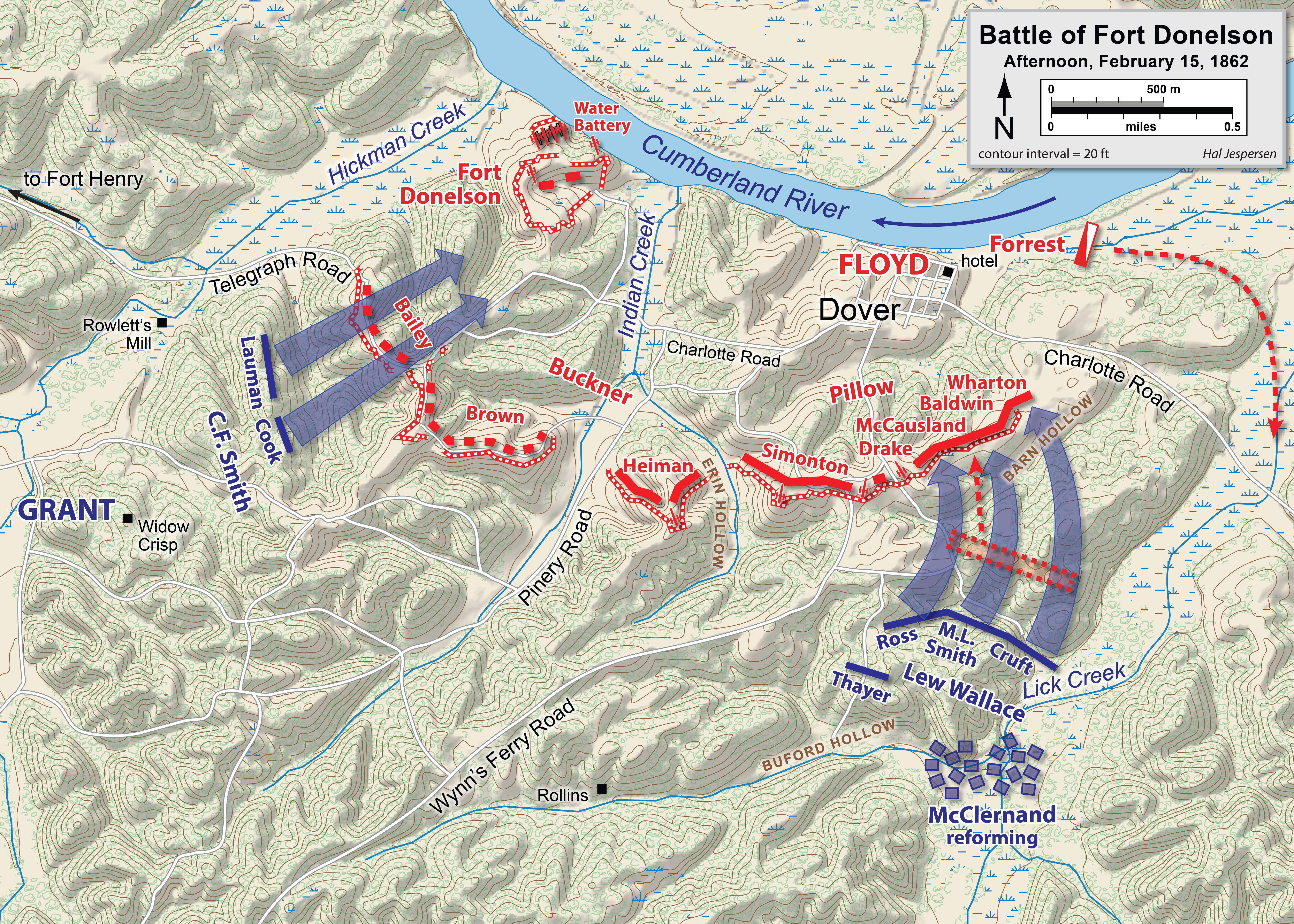 One of a series of 4 maps of the Battle of Fort Donelson of the American Civil War. Drawn in Adobe Illustrator CC by Hal Jespersen. Graphic source file is available at